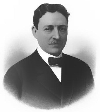 John Patrick Hopkins (October 29, 1858 – October 13, 1918) served as mayor of Chicago, Illinois (1893–1895) for the Democratic Party. John Patrick Hopkins was the first of nine Irish American Catholic mayors of Chicago.